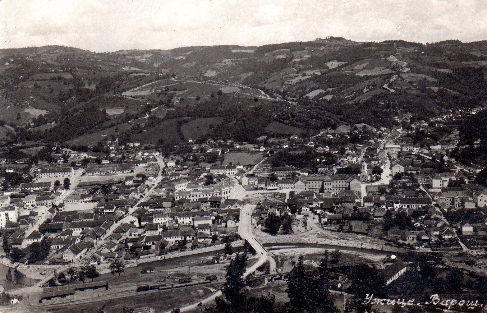 Photo old Uzice (Serbia) from 1929.